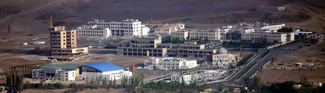 Sardasht Branch of University of Arak.